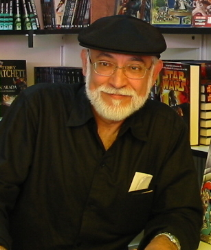 Spanish comic writer Jan.